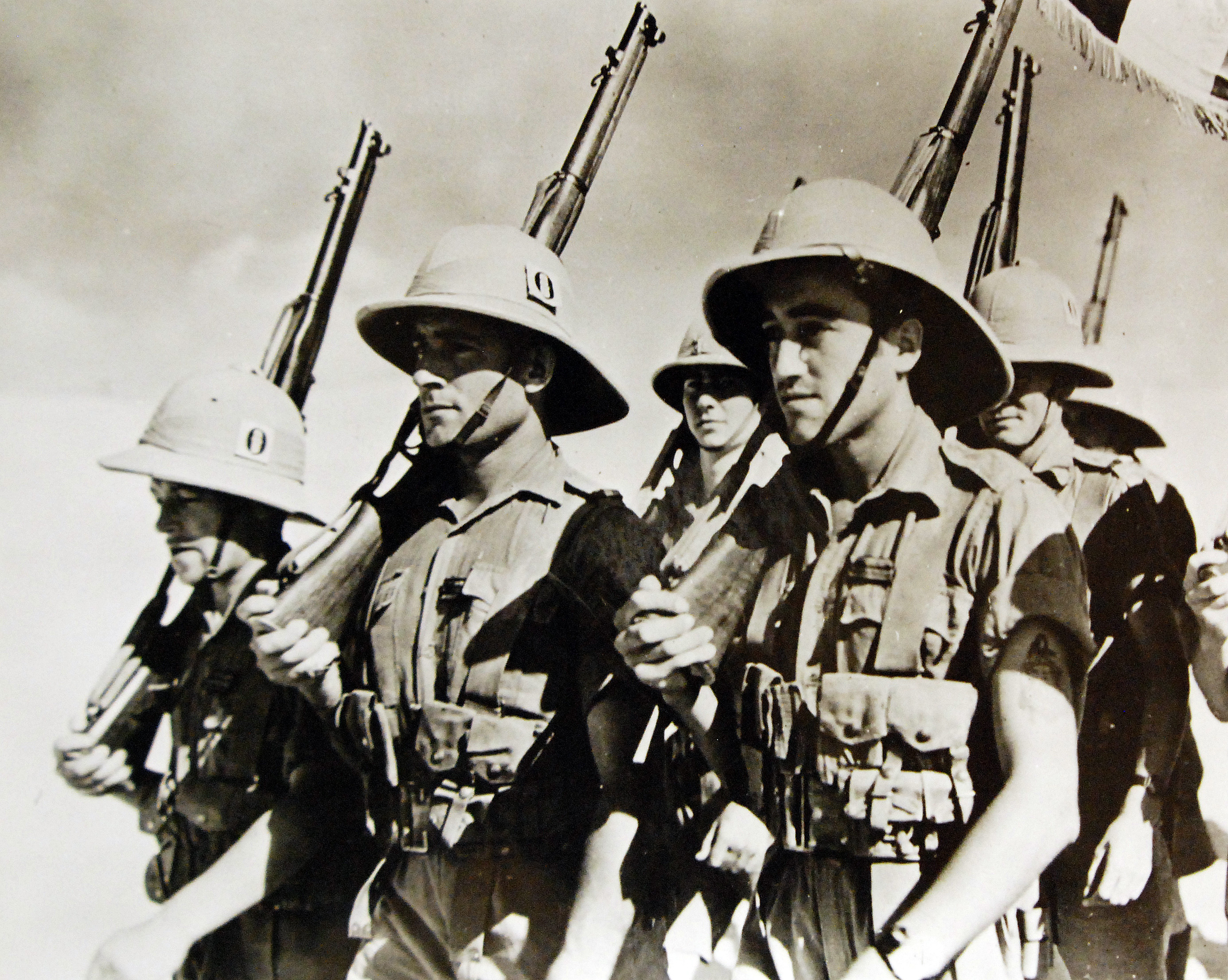 Lot 11588-37: North African Campaign. Fighting French troops in Africa, 1942. Office of War Information Photograph, 91219. (2016/02/11).